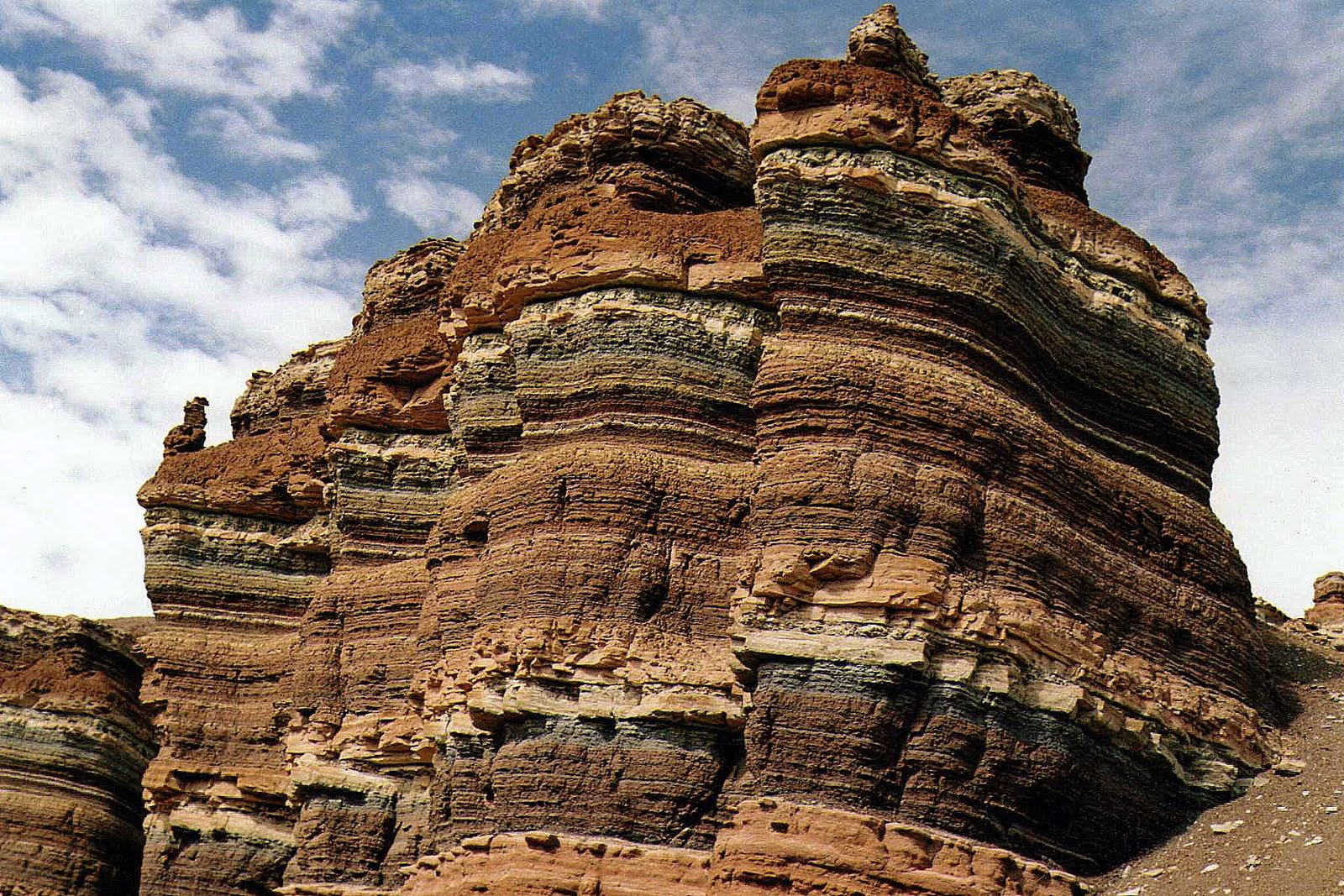 Tilted layers of rock at Quebrada de las Conchos in Salta Province, Argentina.